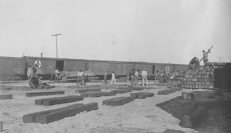 PH Coll 430.A45 This is the plant in Somervell, Texas where railroad ties were treated with creosote. The Pacific Creosoting Company was a company founded on Bainbridge Island that treated logs with creosote as a preservative. It began operations as the Perfection Pile Preserving Company in 1904, then moved in 1905 to Eagle Harbor at Winslow in the city of Bainbridge Island. The company was taken over by Horace Chapin Henry in 1906 and renamed. After Henry died in 1928, his company and its competitor, J.M. Colman's creosote company (located in West Seattle), were combined in 1930 to form the West Coast Wood Preserving Company. In 1947, Walter Wyckoff bought out the Colman family's interest and, after joining with J.H. Baxter in 1959, renamed the company the Baxter-Wyckoff Company. In 1964, Wyckoff bought out Baxter and renamed the company the Wyckoff Company. The Eagle Harbor site was one of the largest producers of treated wood products in the United States. Treated wood from the site was used to build wharfs in San Francisco, flood control channels in Los Angeles, and the Panama Canal. Subjects (LCSH): African Americans--Texas--Somervell; Railroad ties--Texas--Somervell; Atchison, Topeka, and Santa Fe Railroad Company; Railroad trains--Texas--Somervell